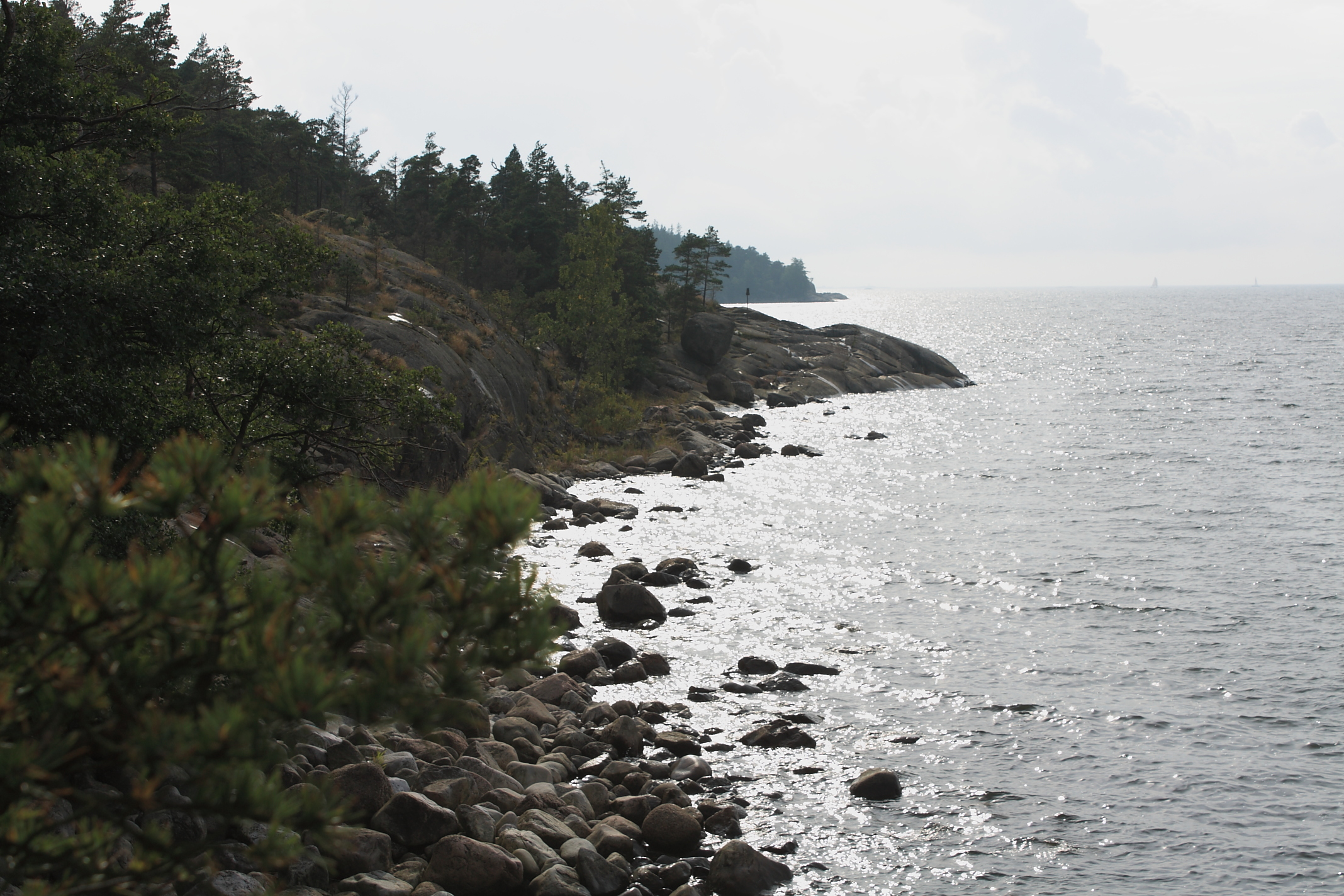 Rocky coastline in Porkkalanniemi, Kirkkonummi, Finland.